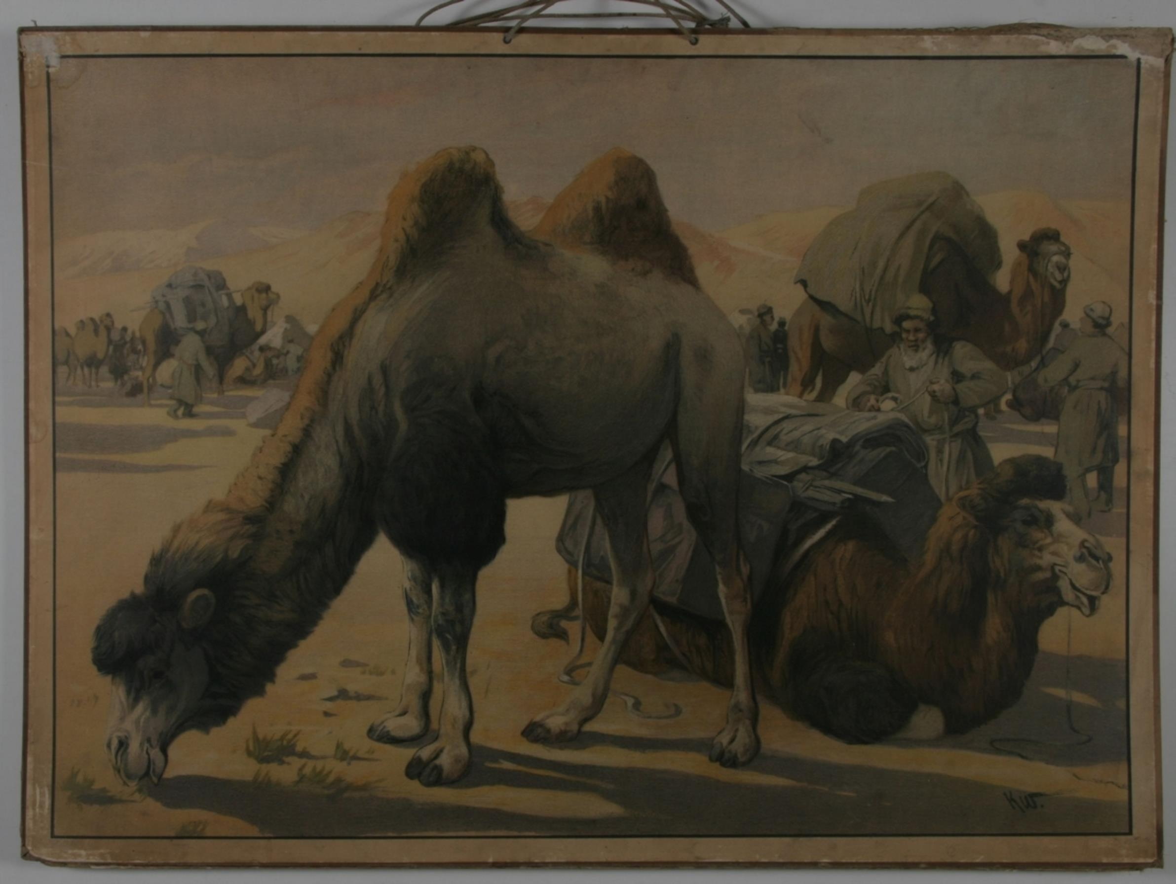 Educational wall picture formerly used in primary schools in the Netherlands. Here: "Camels in the desert", published around 1900. Collection Centre Céramique, Maastricht, the Netherlands.